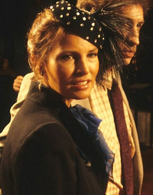 Raquel Welch (with husband Andre Weinfeld arriving at the premiere of Midler's movie, THE ROSE) 1979.